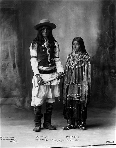 Bonie Tela, San carlos Apache; and Hattie Tom, Chiricahua ApachePart of the Rinehart Indian Photographs collection, Haskell Indian Nations University.